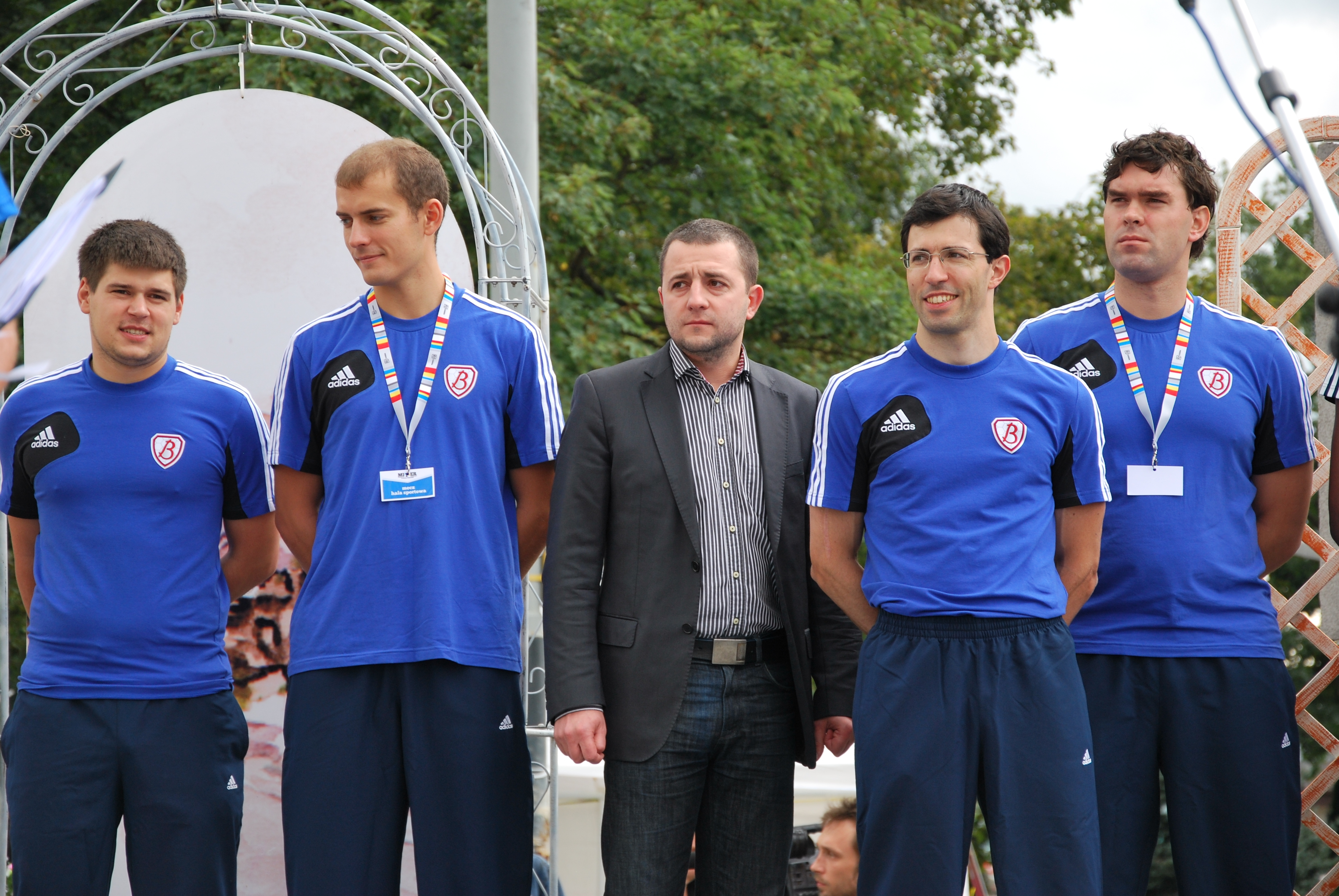 Budowlani Łódź 2012 staff. Left to right: Jakub Głuszak - statistician, Michał Saganowski - physiotherapist, Marcin Chudzik - president and general manager, Alessandro Lodi - assistant coach, Maciej Kosmol - coach.